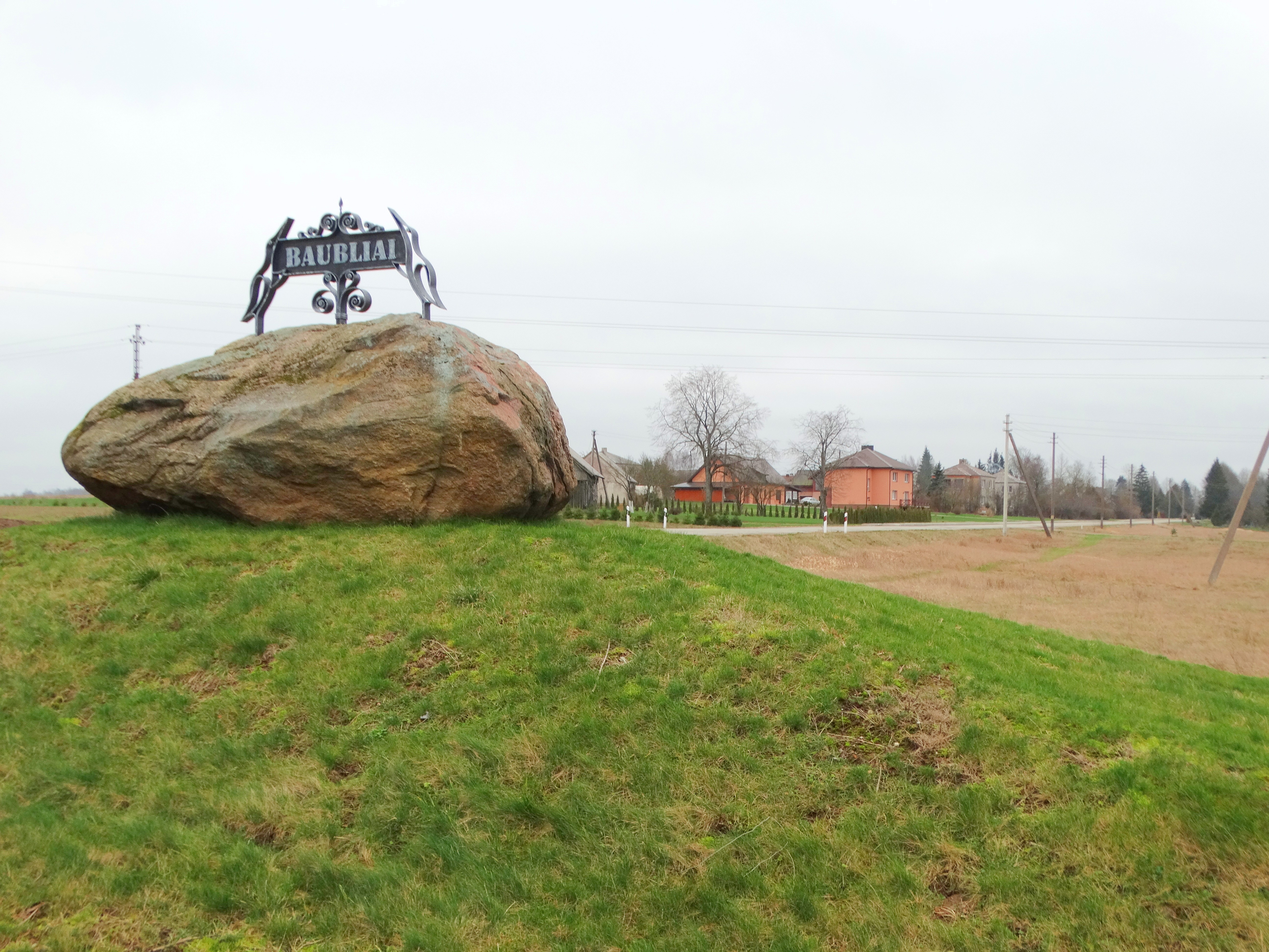 Baubliai, Kretinga District, Lithuania